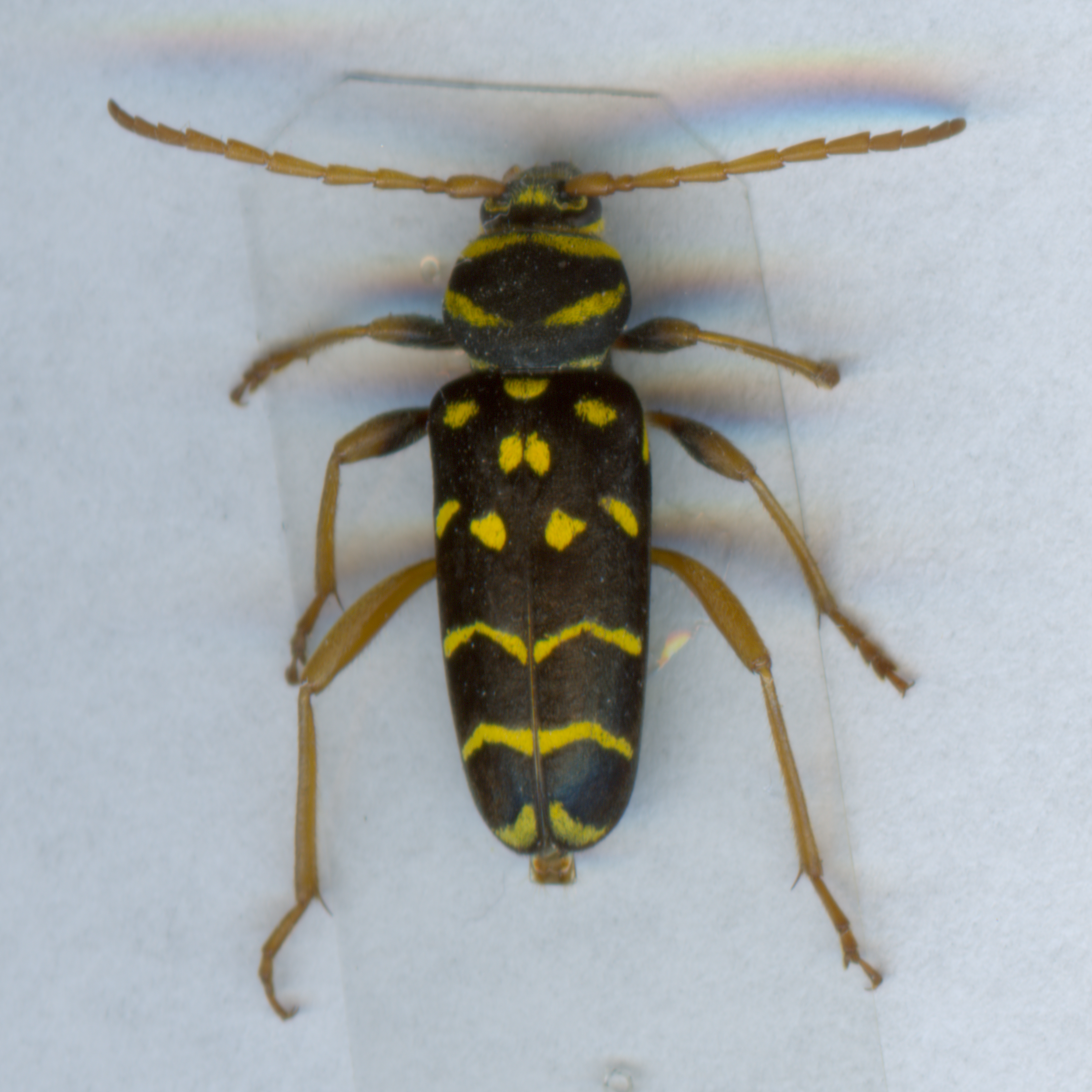 Plagionotus arcuatus. Scanned.